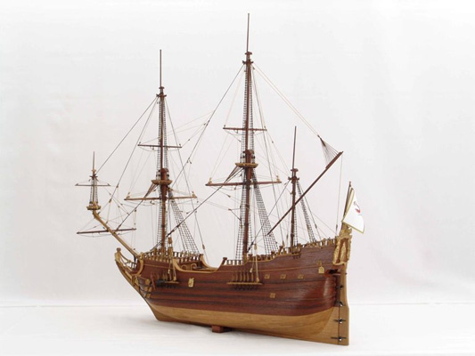 Model of a late 17th-century Fluyt, the Derfflinger